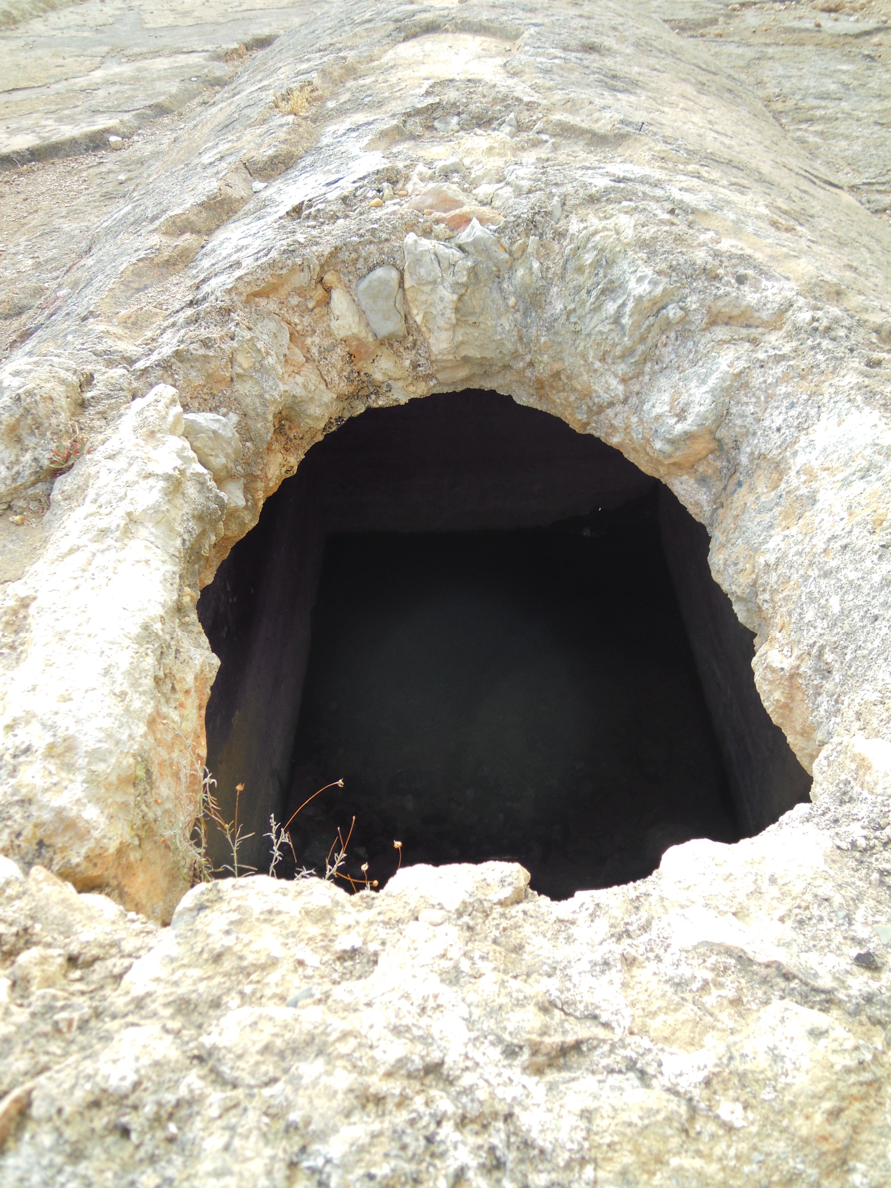 The cistern inside the south west quadrant of Paderne Castle near the village of Paderne, Algarve, Portugal. The cistern was a key part of the castle's infrastructure as it made it possible to continue supplying people within the castle with water during times of siege.